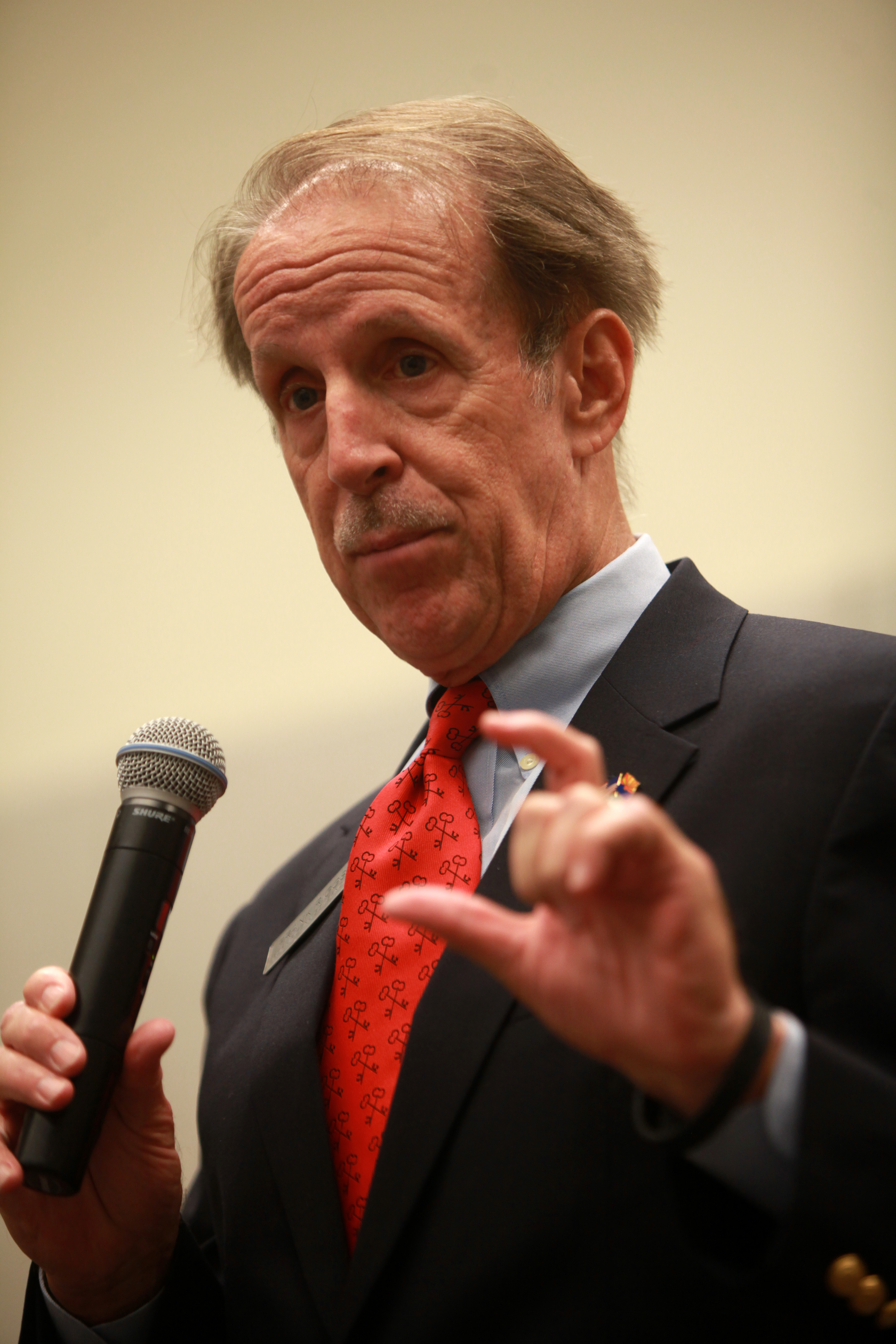 Former U.S. Congressman Frank Riggs of California speaking at the 2014 Western Conservative Conference at the Phoenix Convention Center in Phoenix, Arizona. Copyright © Western Center for Journalism/Gage Skidmore.